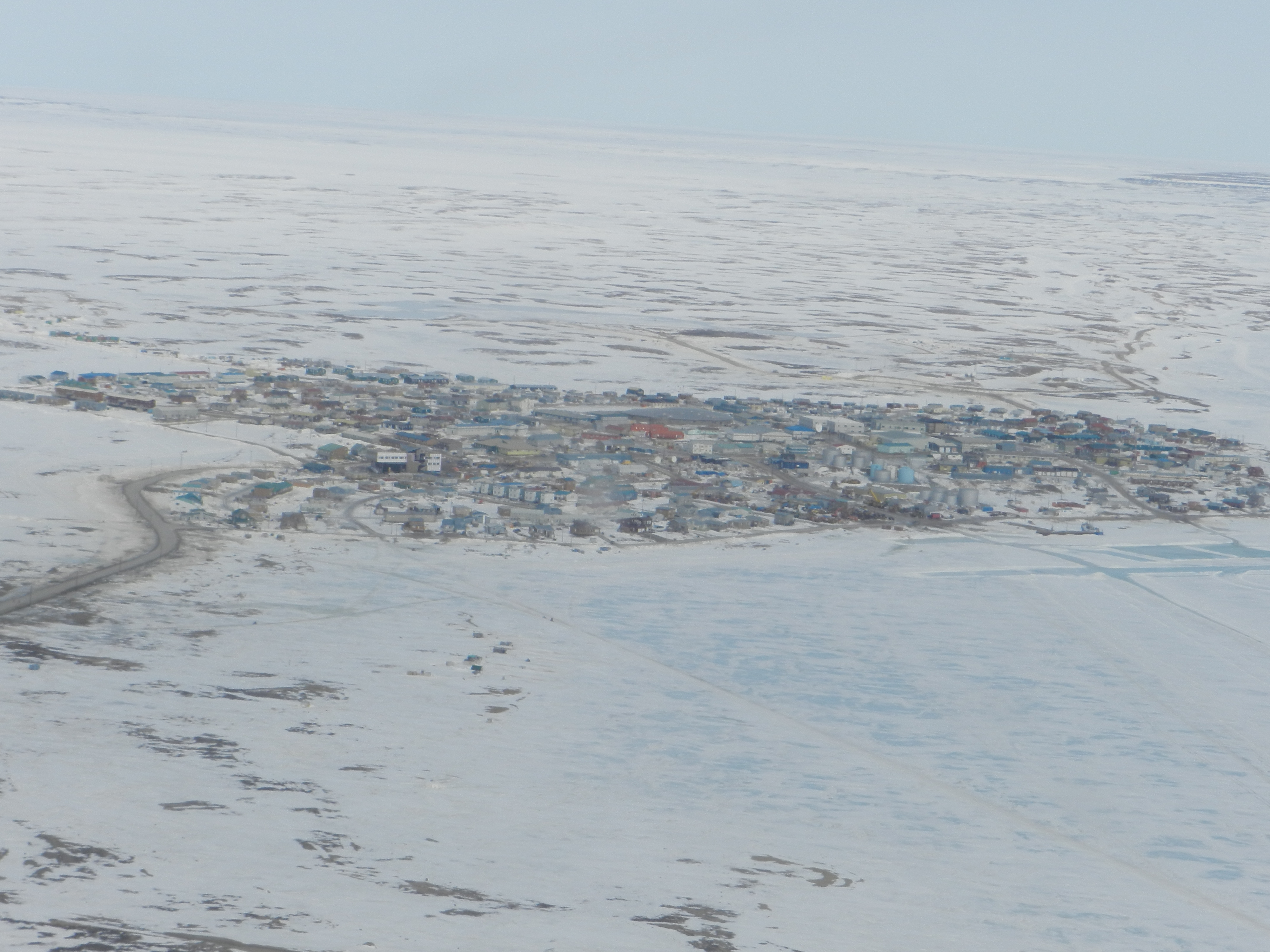 Aerial view of Cambridge Bay in May